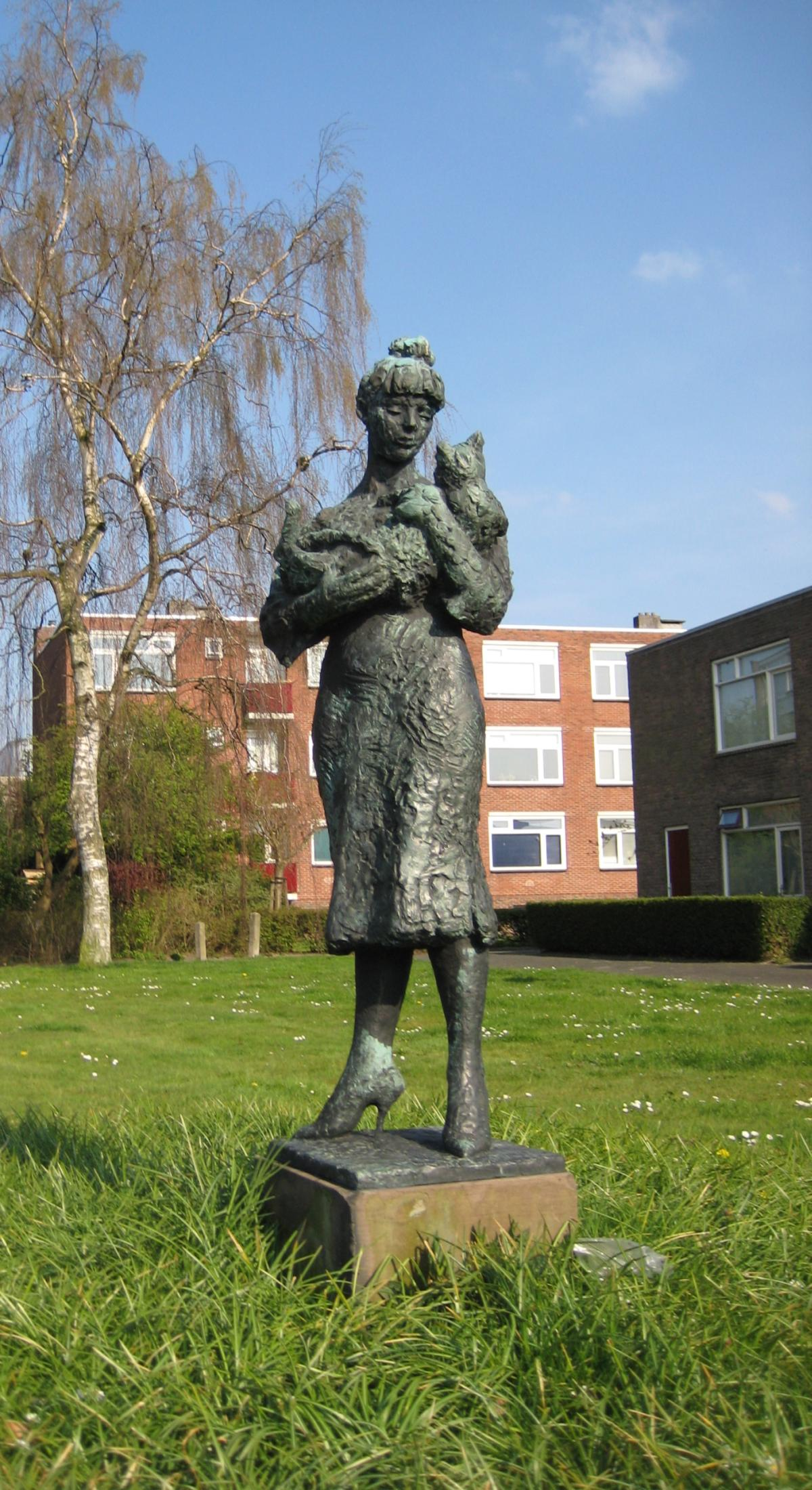 Vrouw met kat ("Woman with cat") (1956), also known as Olga met de kat, a statue in the Dutch city of Groningen by the sculptor and writer Jan Wolkers (1925-2007)